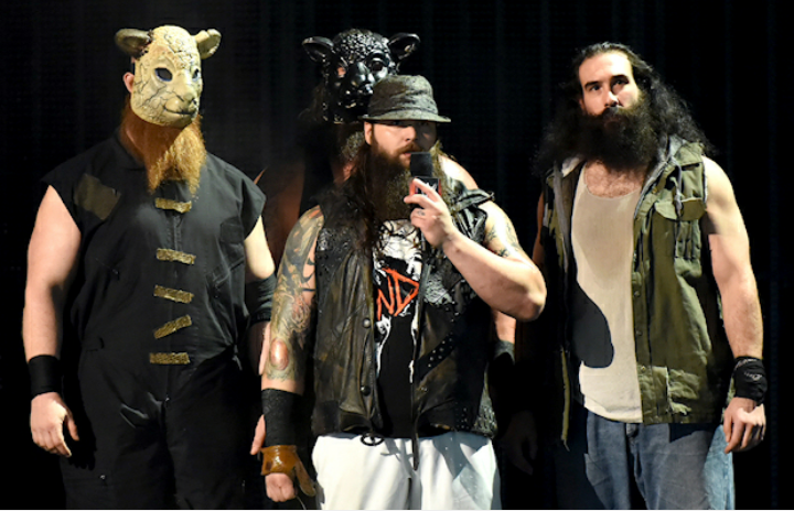 (From left to right) Erick Rowan, Braun Strowman, Bray Wyatt & Luke Harper